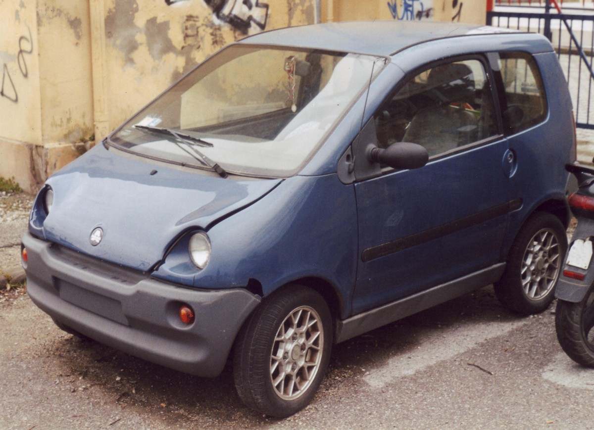 French microcar Aixam 400